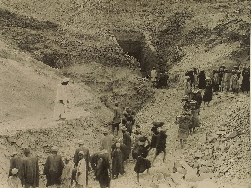 Harry Burton: Tutankhamun tomb photographs: a photographic record in 5 albums containing 490 original photographic prints ; representing the excavations of the tomb of Tutankhamun and its contents. Vol. 1